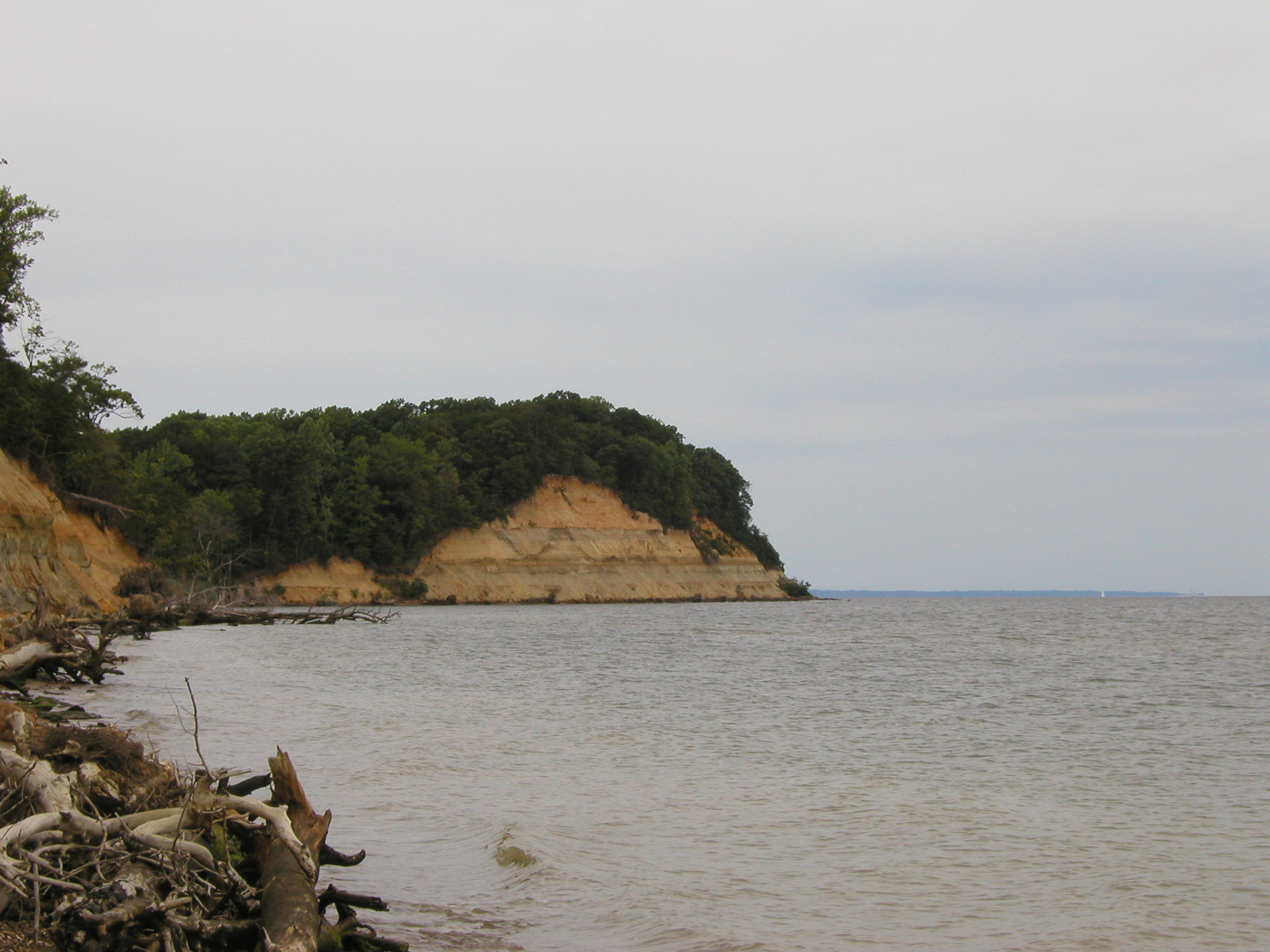 Calvert Cliffs, on the Chesapeake Bay, viewed from Calvert Cliffs State Park, in Calvert County, Maryland.